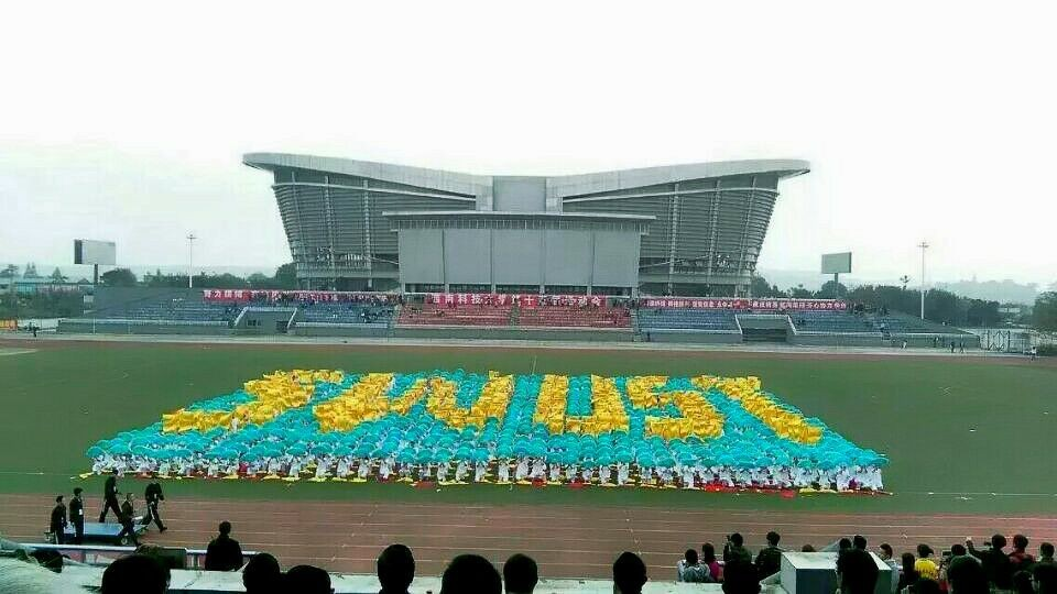 Athletic meet games opening ceremony